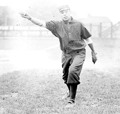 African American pre-Negro Leagues baseball player Walter Ball of the Leland Giants baseball team, throwing a baseball, standing on a baseball field in Chicago, Illinois. Ball also played with the Chicago Union Giants during this time, but uniform appears to be of the Leland Giants. This photonegative taken by a Chicago Daily News photographer in the early part of the season, may have been published in the newspaper. Collected from Library of Congress: SDN-055360, Chicago Daily News negatives collection, Chicago History Museum.